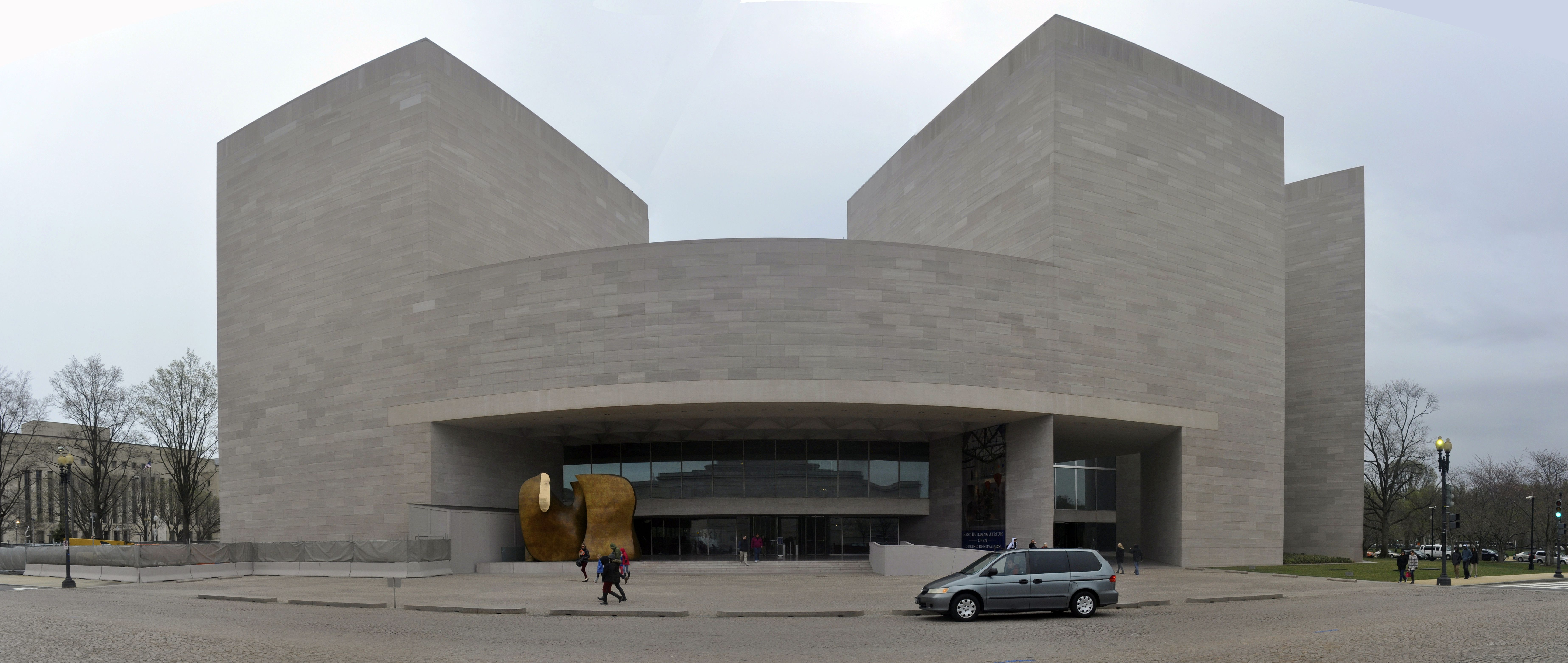 East Building of the National Gallery of Art